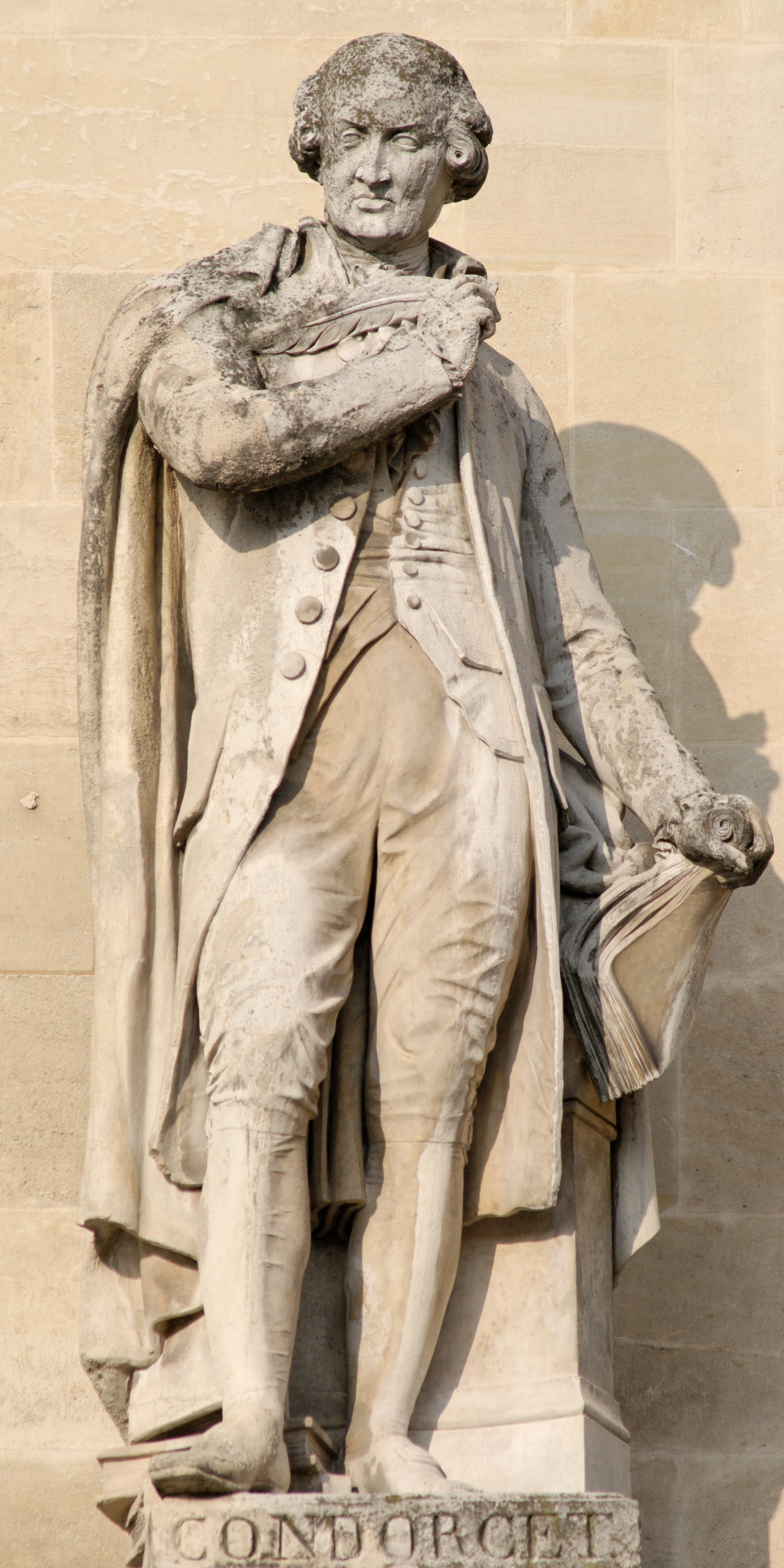 Condorcet by Pierre Loison. Stone, ca. 1853. 1st statue from Pavillon Colbert to Pavillon Sully, Cour Napoléon in the Louvre.